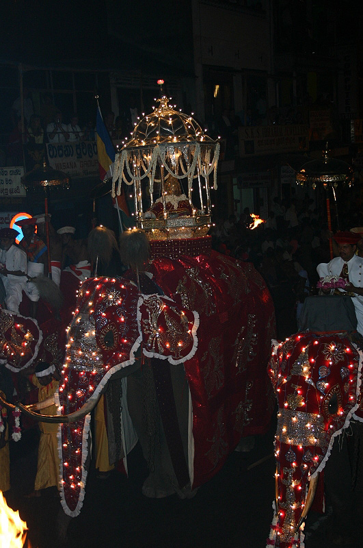 Elephants at the Esala Perahera in Kandy, Sri Lanka.